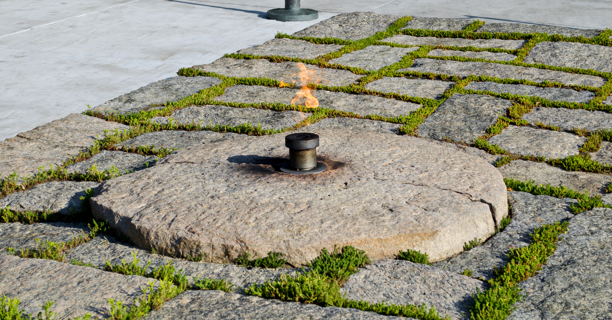 The eternal flame at the John F. Kennedy grave site in Arlington National Cemetery in Arlington County, Virginia, in the United States on May 30, 2013. The flame was completely replaced and an upgraded nozzle, flame monitoring system, re-ignition mechanism, gas control system, and fire suppression system installed during May 2013. The new flame is much more energy efficient, brighter, and better able to withstand wind and rain.